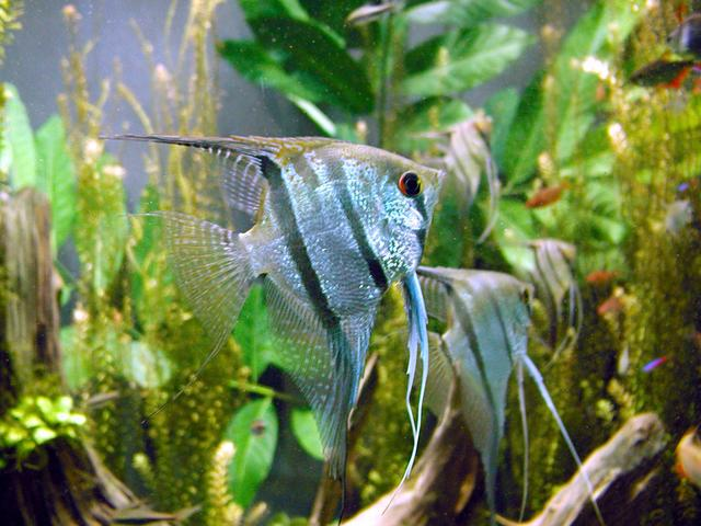 Freshwater angelfish (Pterophyllum scalare) at the Montreal Biodome